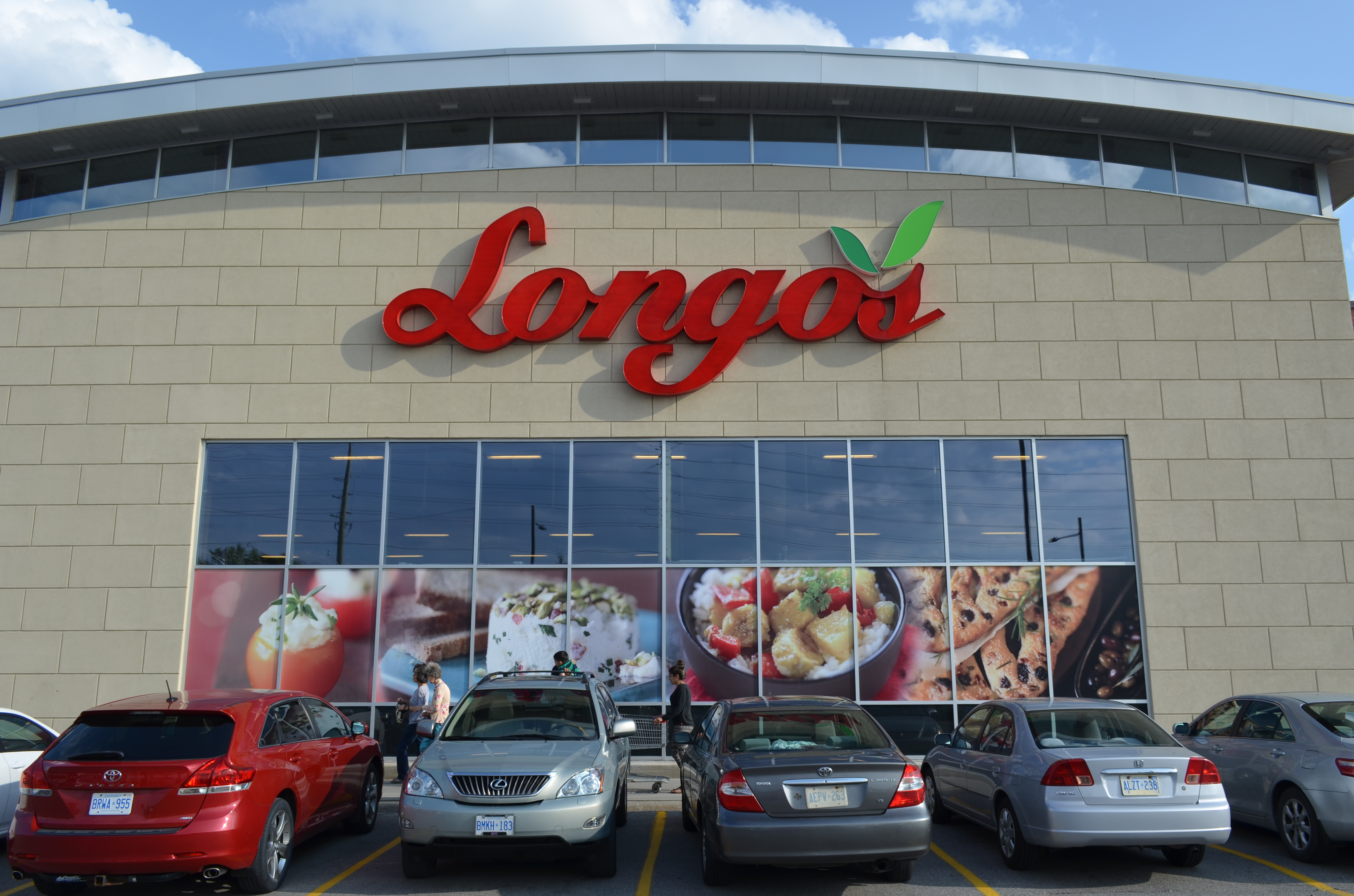 Longo's - 3085 Highway 7, Markham